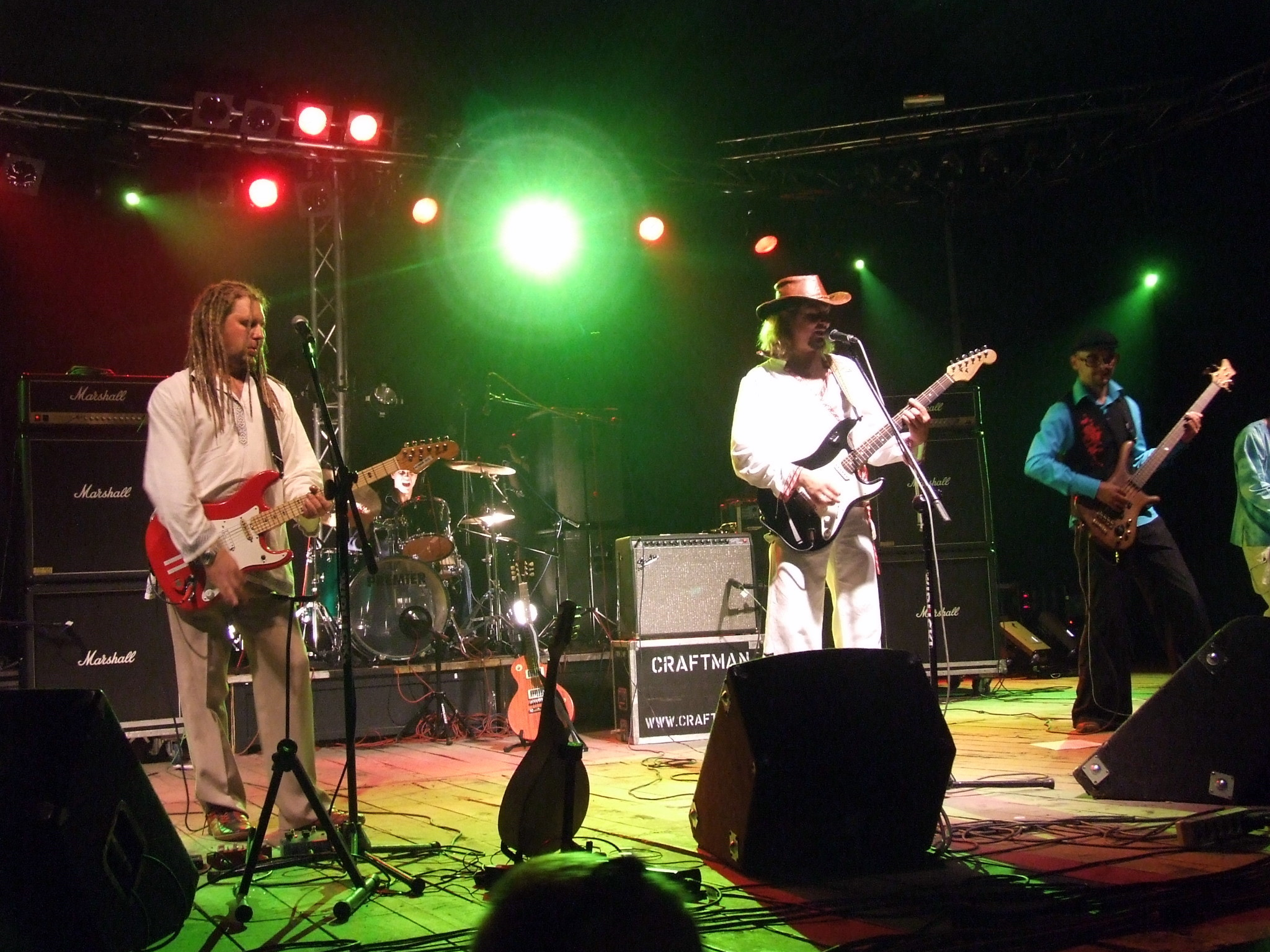 Krambambula's concert at Basowiszcza festival 2007.